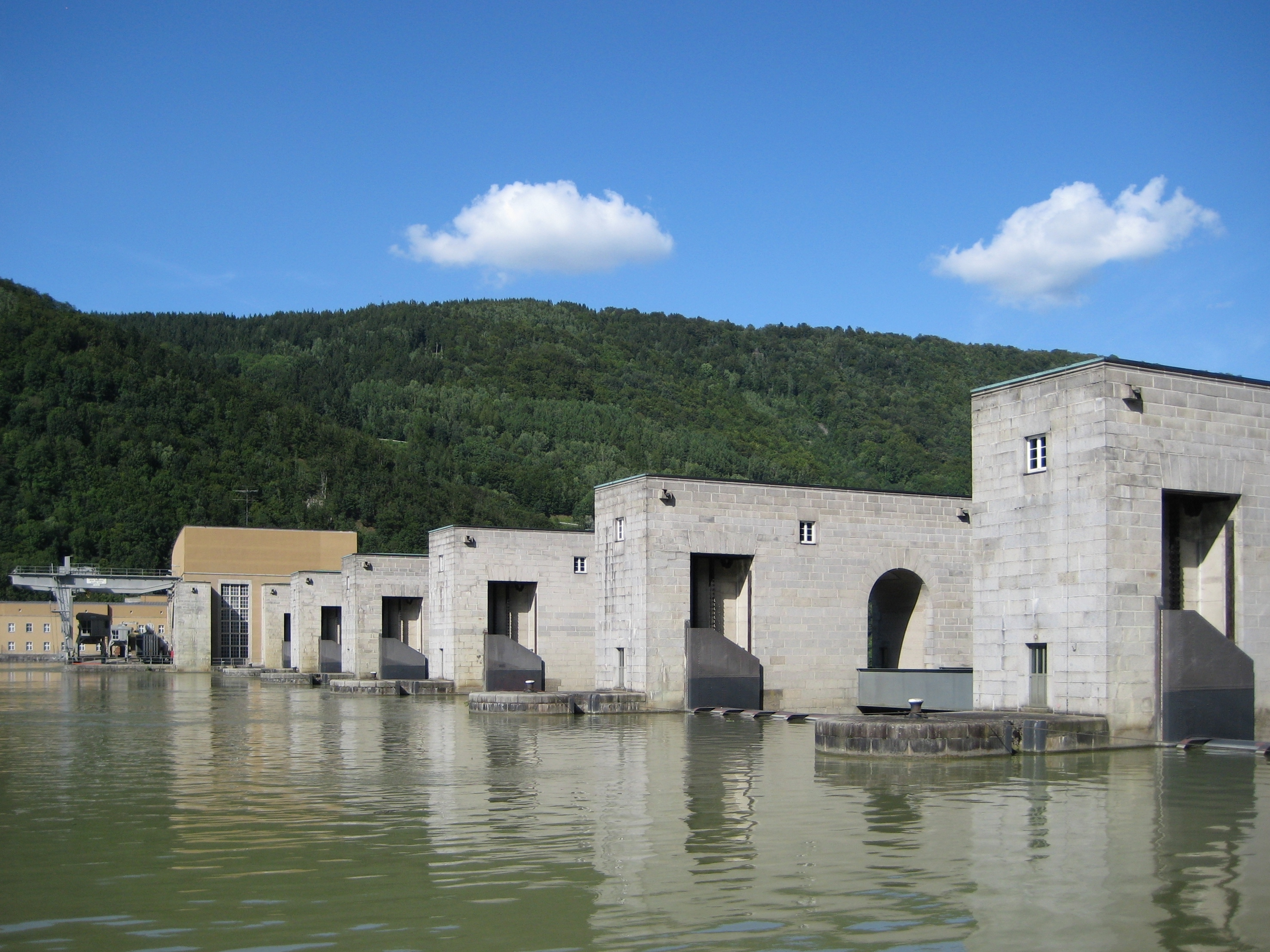 Hydroelectric power plant “Jochenstein” on the Danube